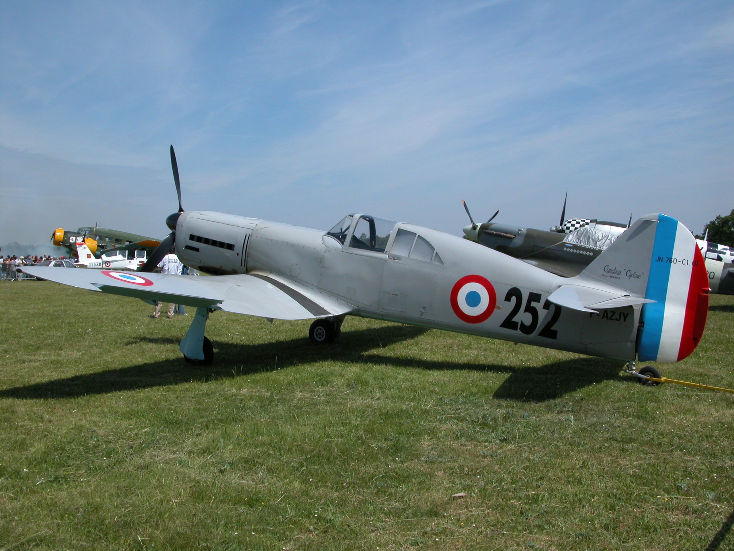 Caudron C.714 Cyclone, La Ferté-Alais air show, may 29 and 30 2004 at the Cerny aerodrome at La Ferté-Alais in France.